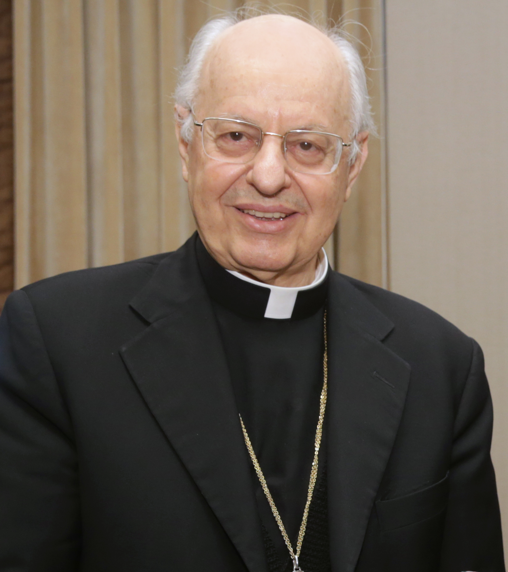 Vice President Chen exchanges gifts with Cardinal Baldisseri. (Vice President Chen meets with Cardinal Lorenzo Baldisseri, Secretary General of the Synod of Bishops, 2017/05/18) 授權方式及範圍：中華民國總統府│政府網站資料開放宣告 Authorization Method & Scope: Office of the President, Republic of China (Taiwan) | Government Website Open Information Announcement